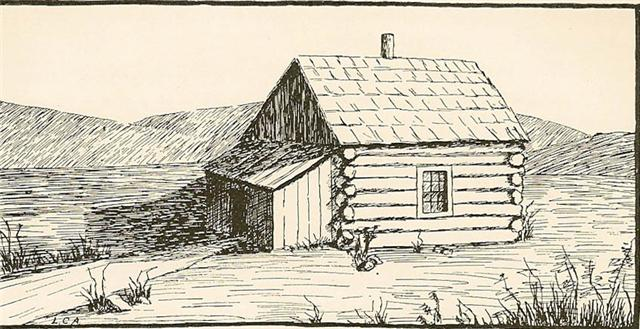 The first church of Vasa, Minnesota.